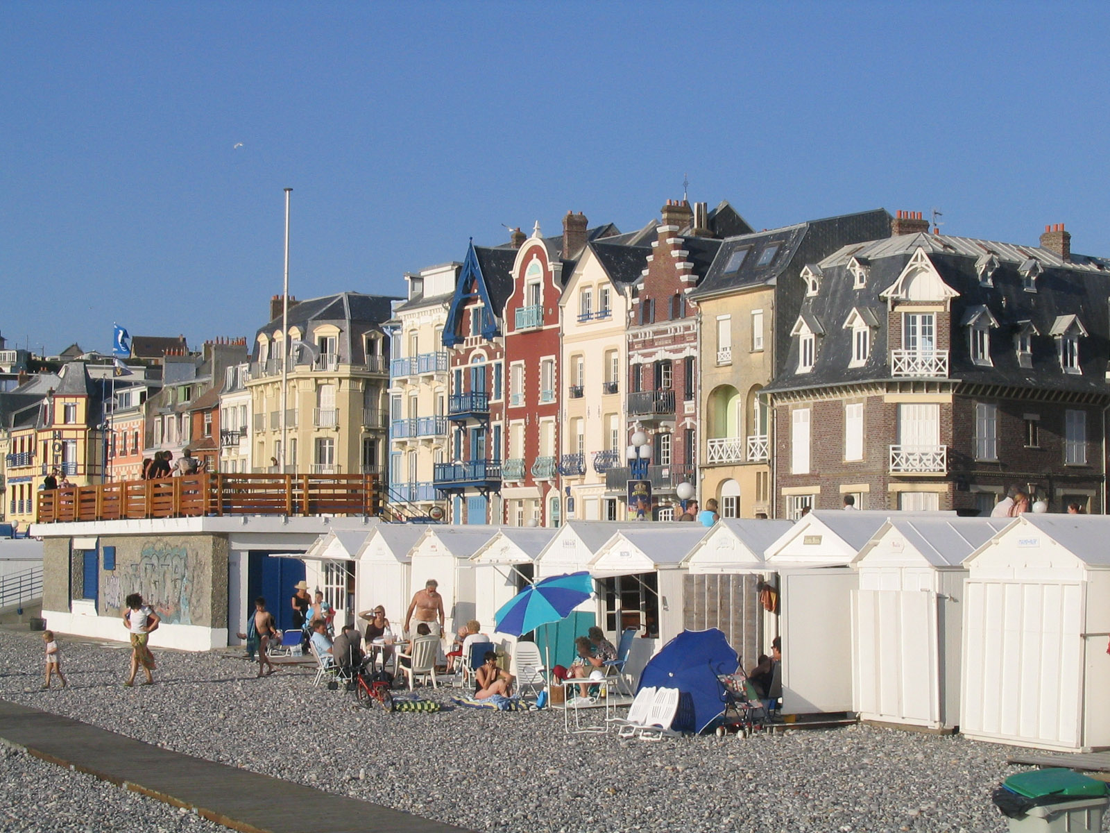 View of Mers-les-Bains esplanade with the beach cabins.